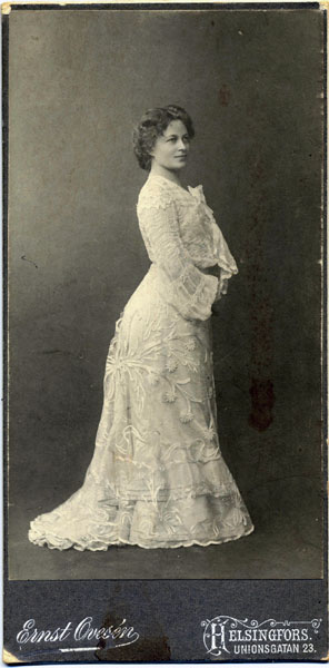 Photograph of the Finnish vocalist Dagmar Hagelberg-Raekallio (1871–1948).